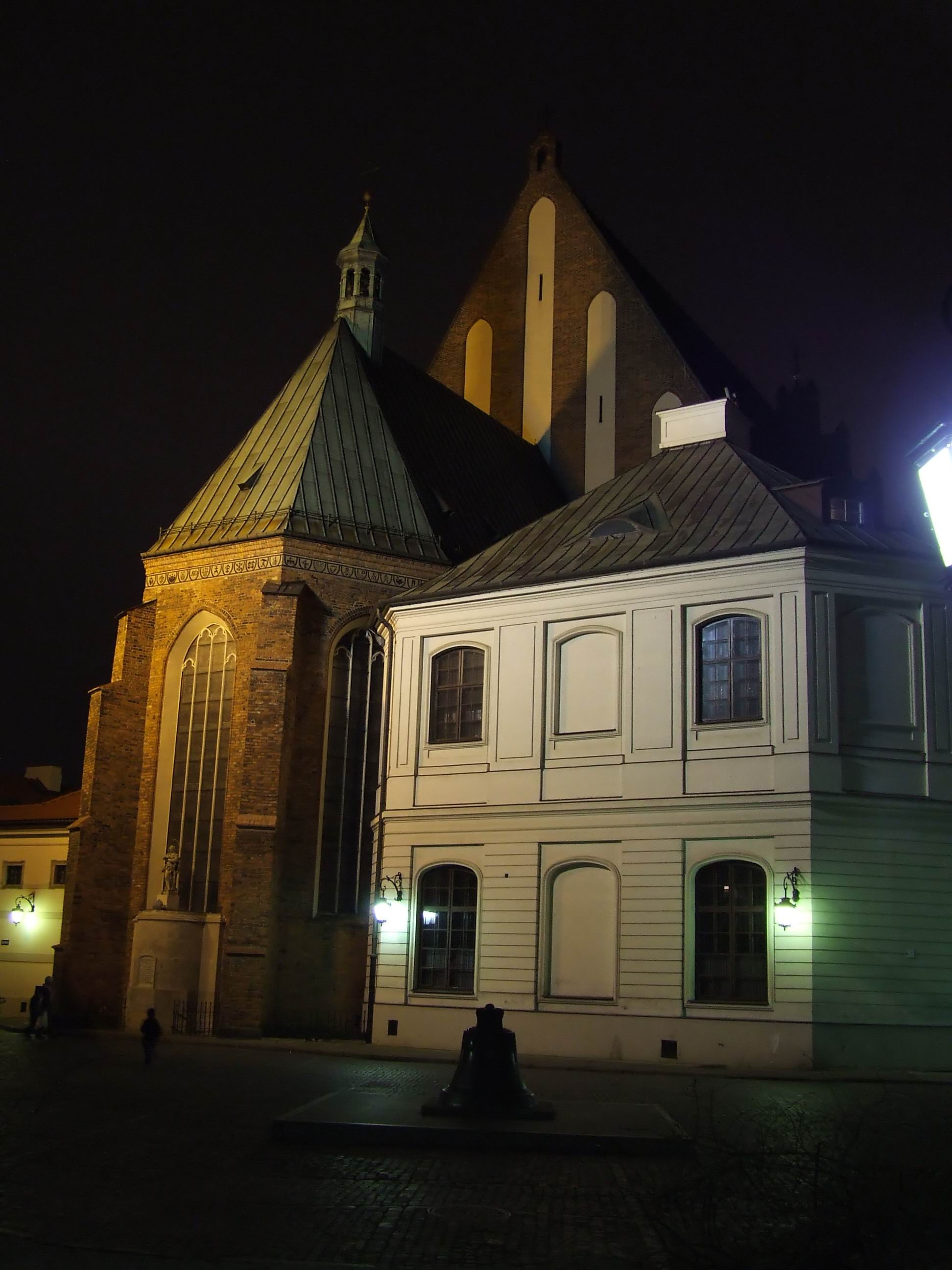 St. John's Cathedral in Warsaw